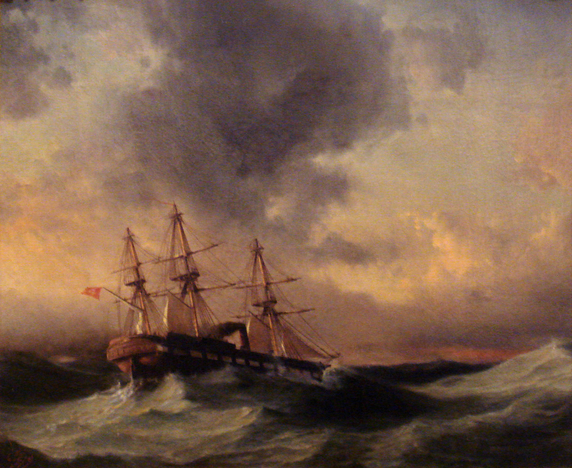 Voyage of frigate Ertuğrul to Japan, commanded by Mirliva Osman Pasha (1858-1890)